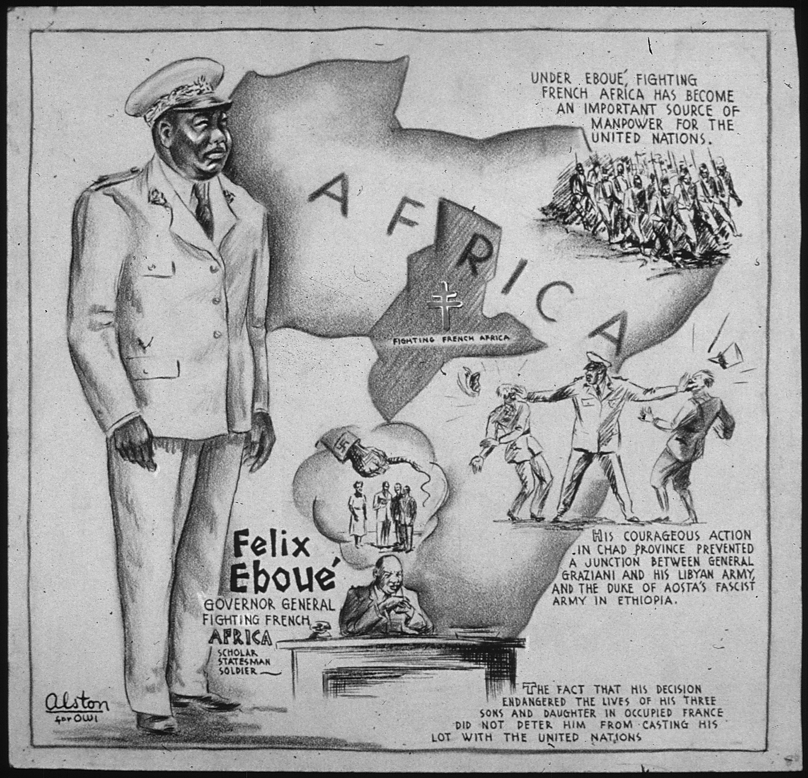 Scope and content: Felix Eboue - with biographical paragraphs.